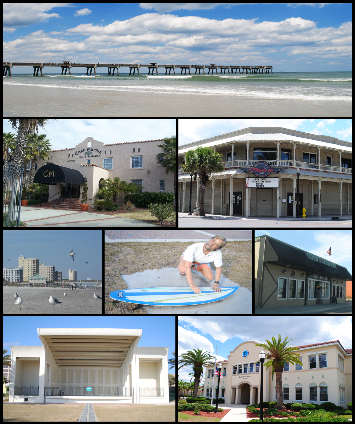 A collection of photos I took around Jacksonville Beach, Florida.